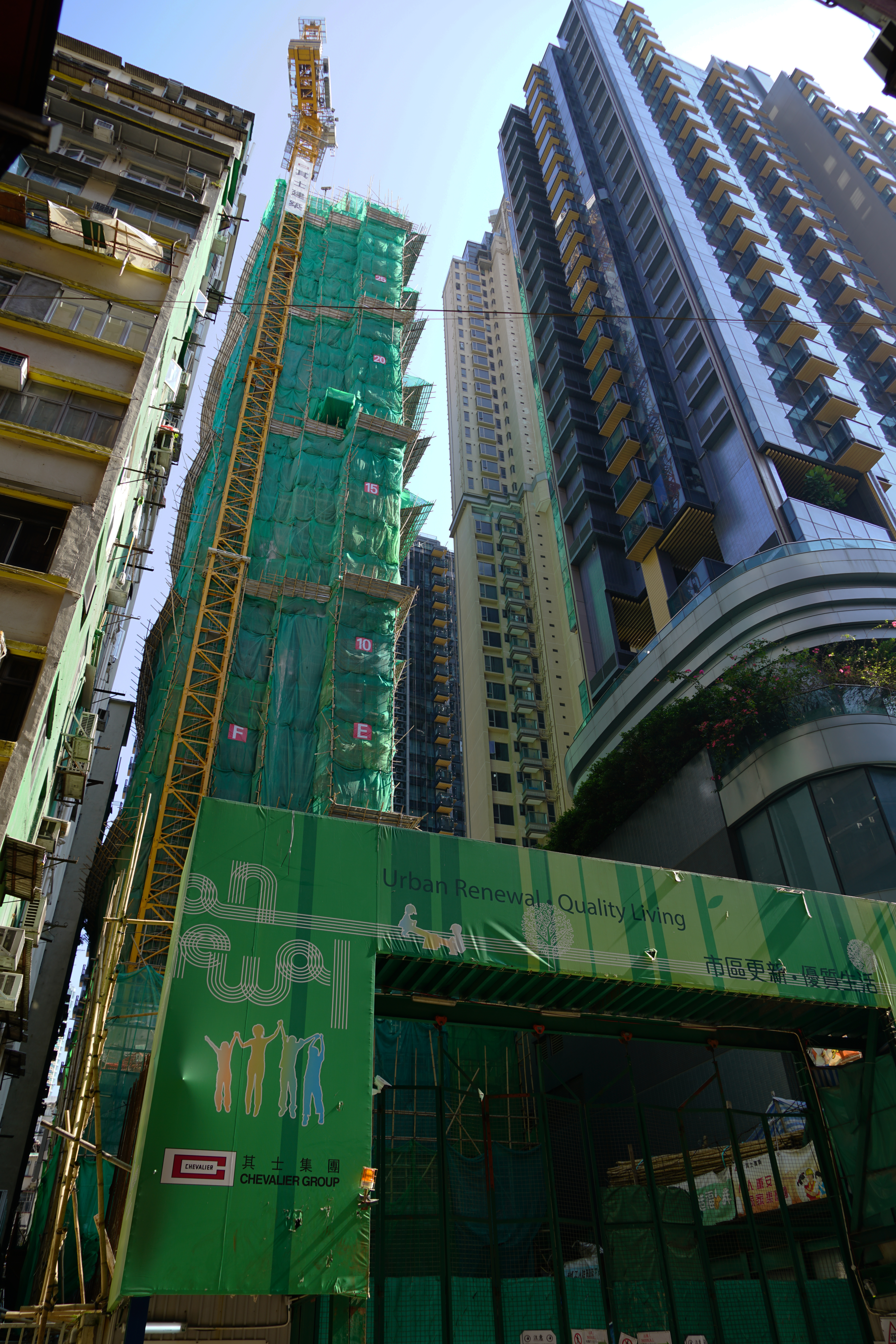 Sablier, Hong Kong.